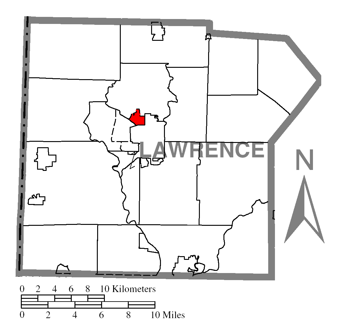 Map of Lawrence County higlighting New Castle Northwest.